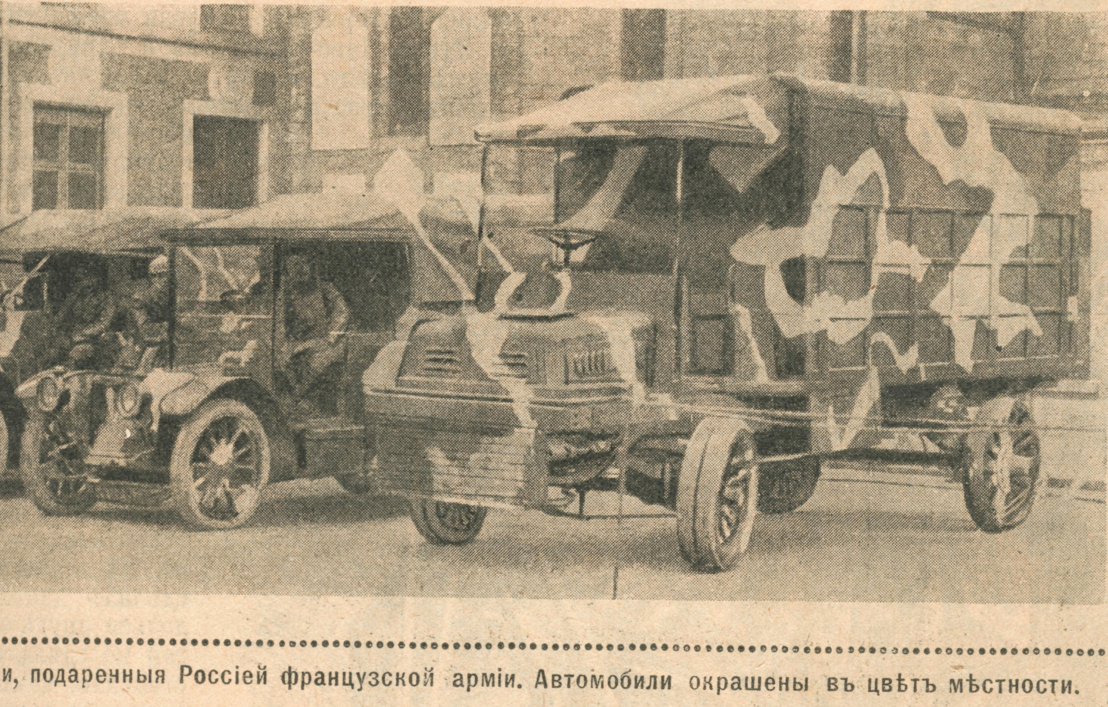 Banya in a car by French Army, WWI, 1916.